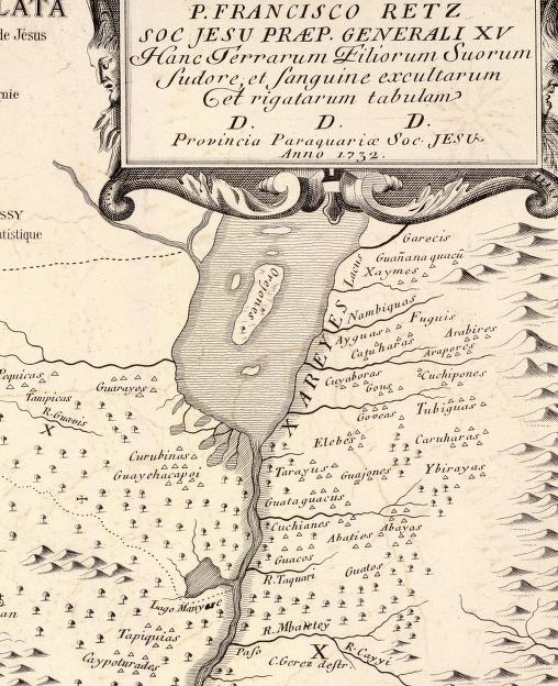 Detail of Facsimile of Paraquariae Provinciae Soc. Jesu cum adiacentib. novissima descriptio. Post iteratas peregrinationes, & plures observationes Patrum Missionariorum erusdem Soc. tum huius Provinciae, cum & Peruanae accuratissime delineata, & emendata ann. 1732, republished in 1873